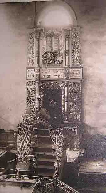 Aron ha-kodesh of Synagogue in Biłgoraj